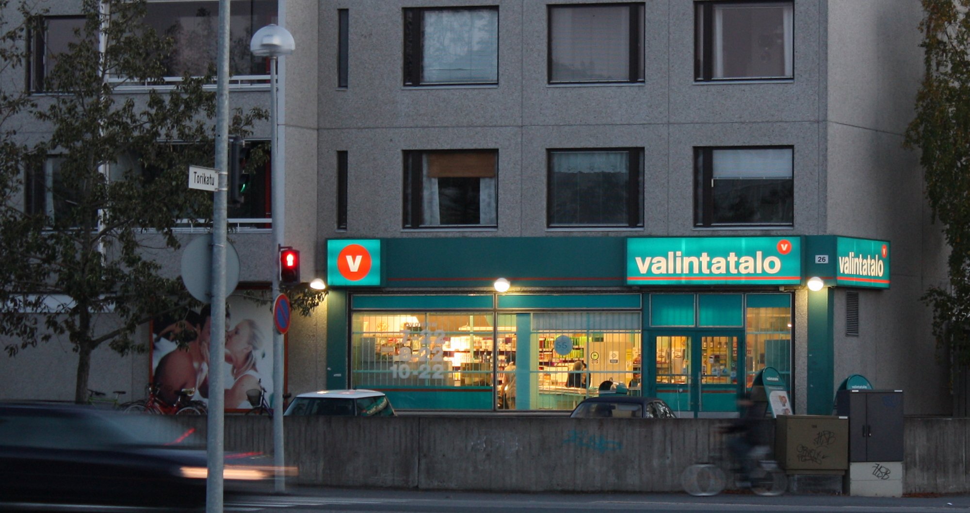 Grocery store Valintalo in Heinäpää, Oulu, Finland.